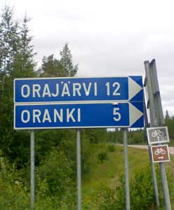 A road sign directing to Orajärvi and Oranki on the connecting road 9381 in Naamijoki, Pello, Finland